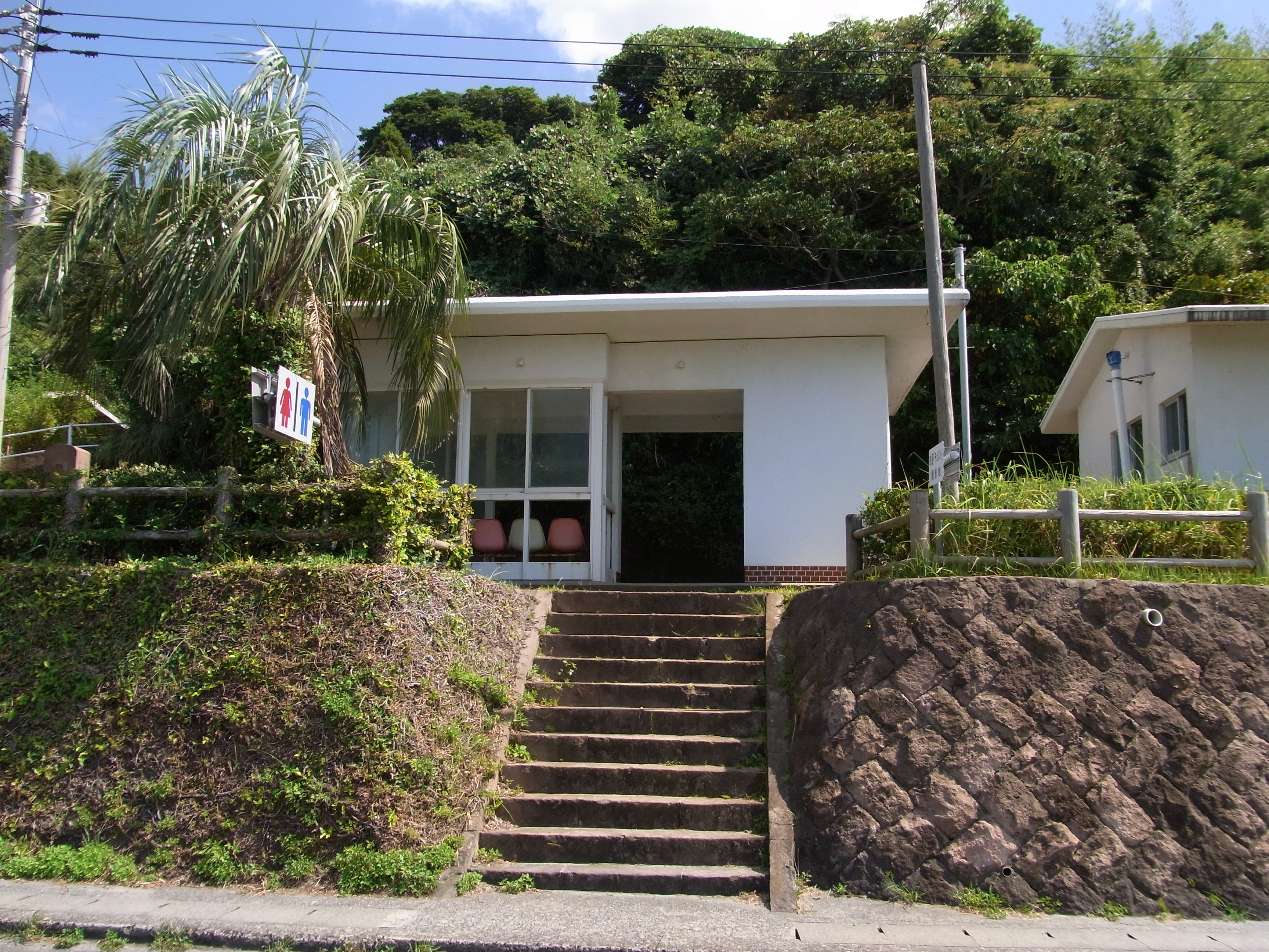 Arahira station on Ohsumi line that is abandoned railway.